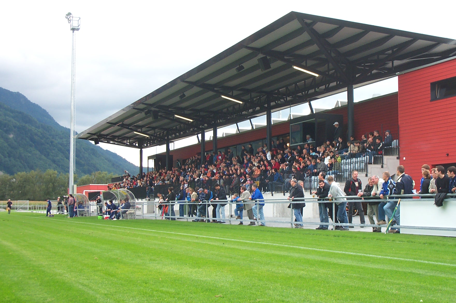 spectators at a game in the Sportpark Eschen-Mauren, stadium of Eschen-Mauren